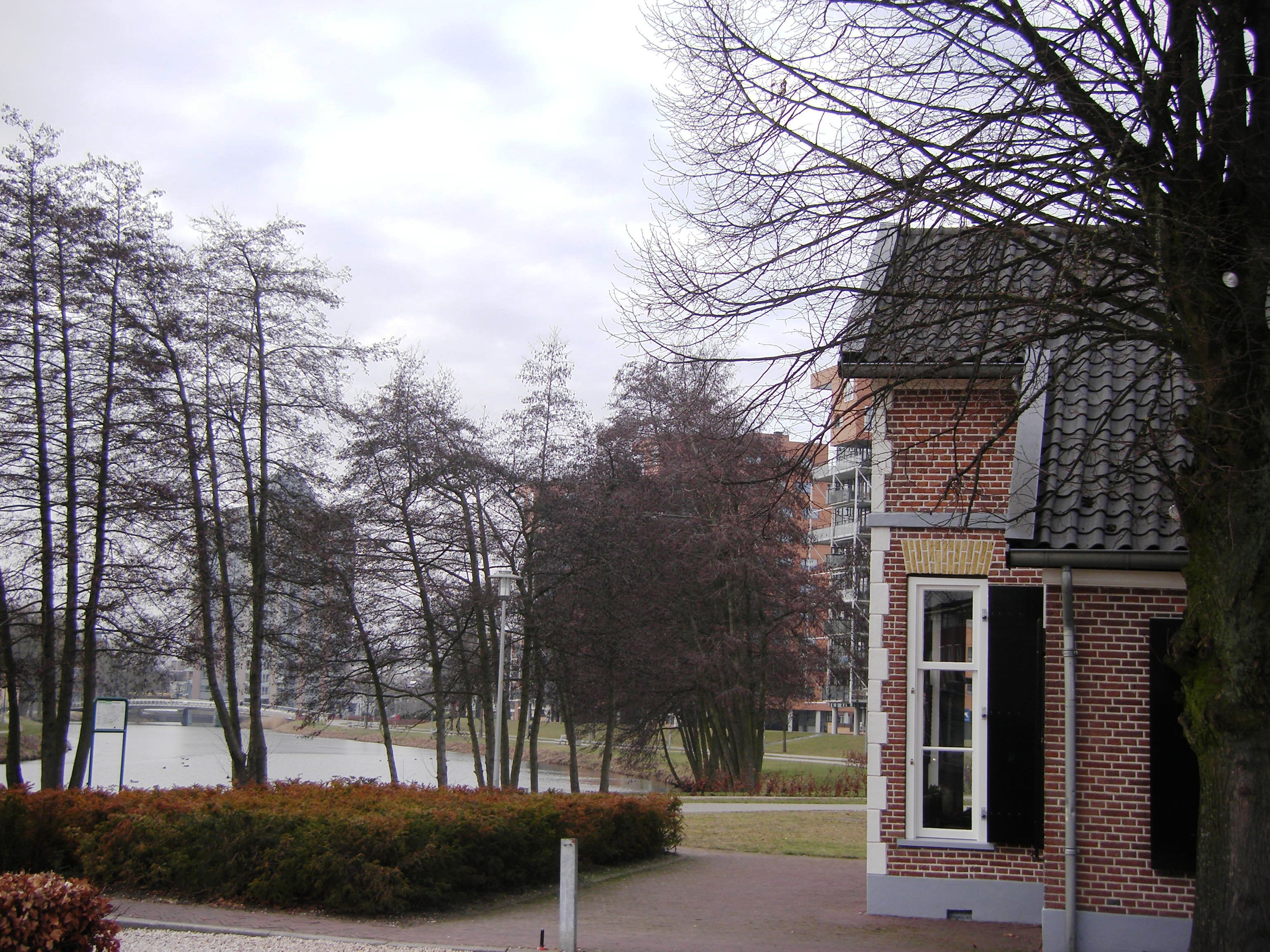 Welgelegen (Apeldoorn)